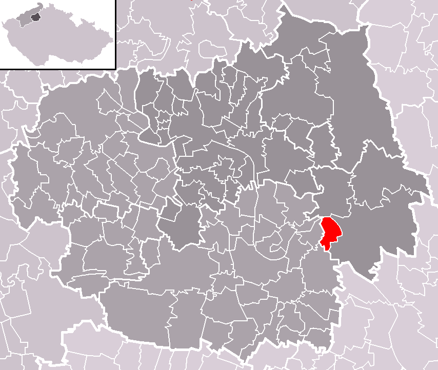 Location of Račice municipality within Litoměřice District and administrative area of Litoměřice as a Municipality with Extended Competence.